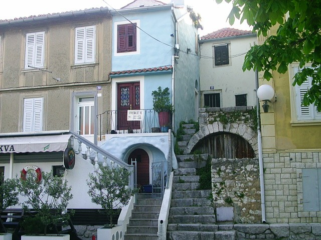 Some houses in Omišalj, Croatia